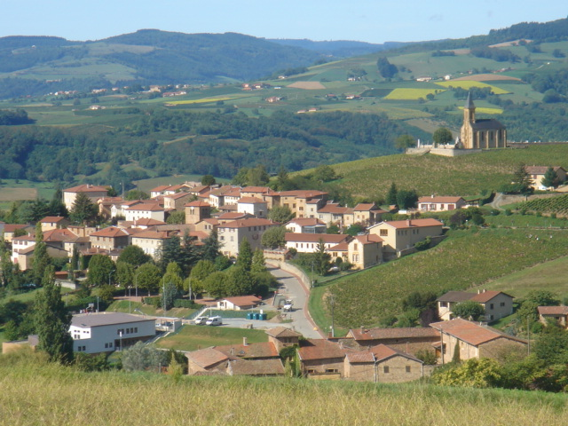 Village of Saint-Laurent-d'Oingt (Rhone) in France